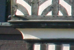 Churche's Mansion, Nantwich, Cheshire, showing coving detail